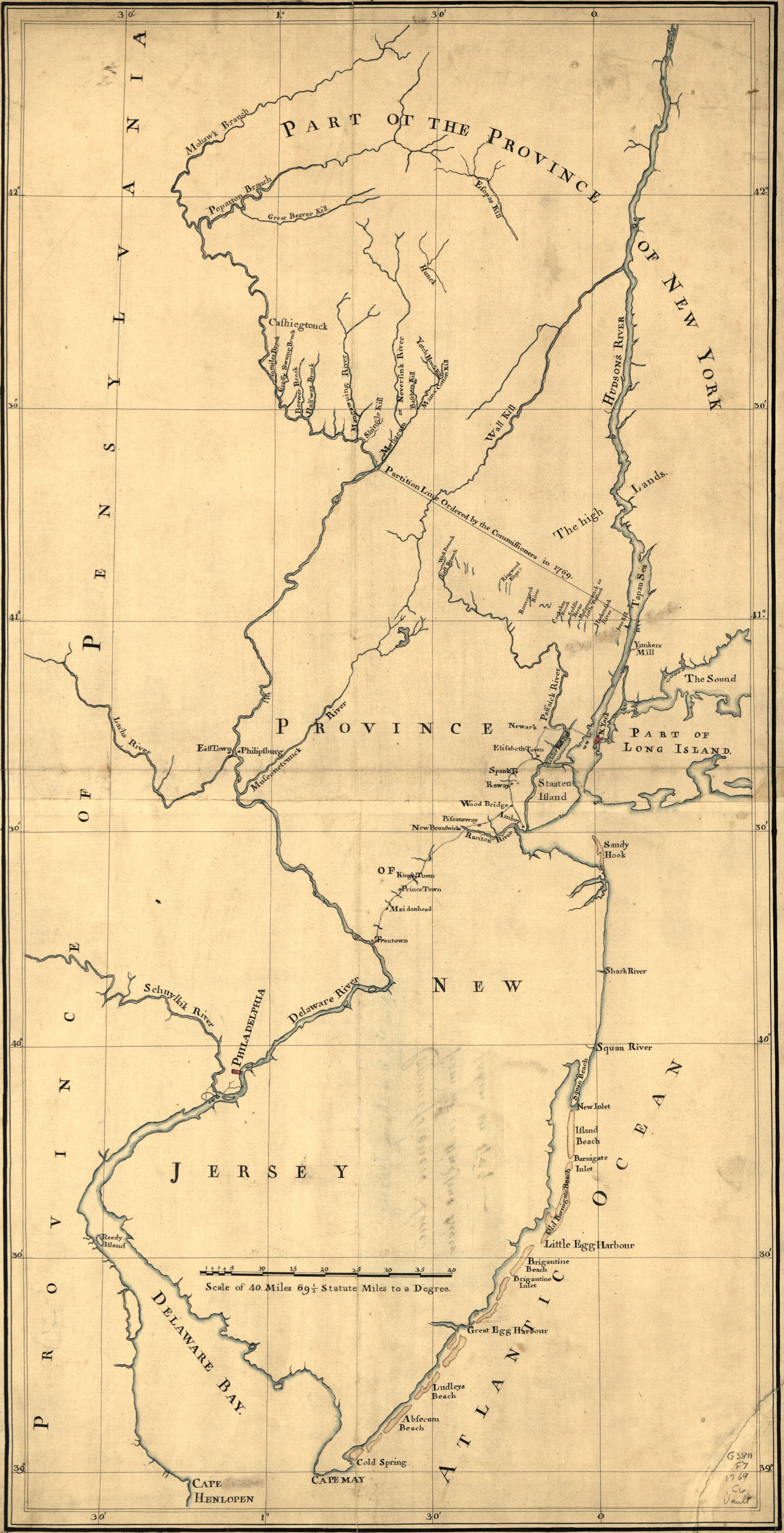 Scale ca. 1:600,000. Title from verso. At head of title, in a different hand: New York & New Jersey. Manuscript, pen-and-ink and watercolor. Shows "Province of New Jersey," "Part of the province of New York," part of the "Province of Pensylvania," and the "Partition line ordered by the commissioners in 1769." "No. 26." LC Maps of North America, 1750-1789, 1243 Available also through the Library of Congress Web site as a raster image. Vault AACR2